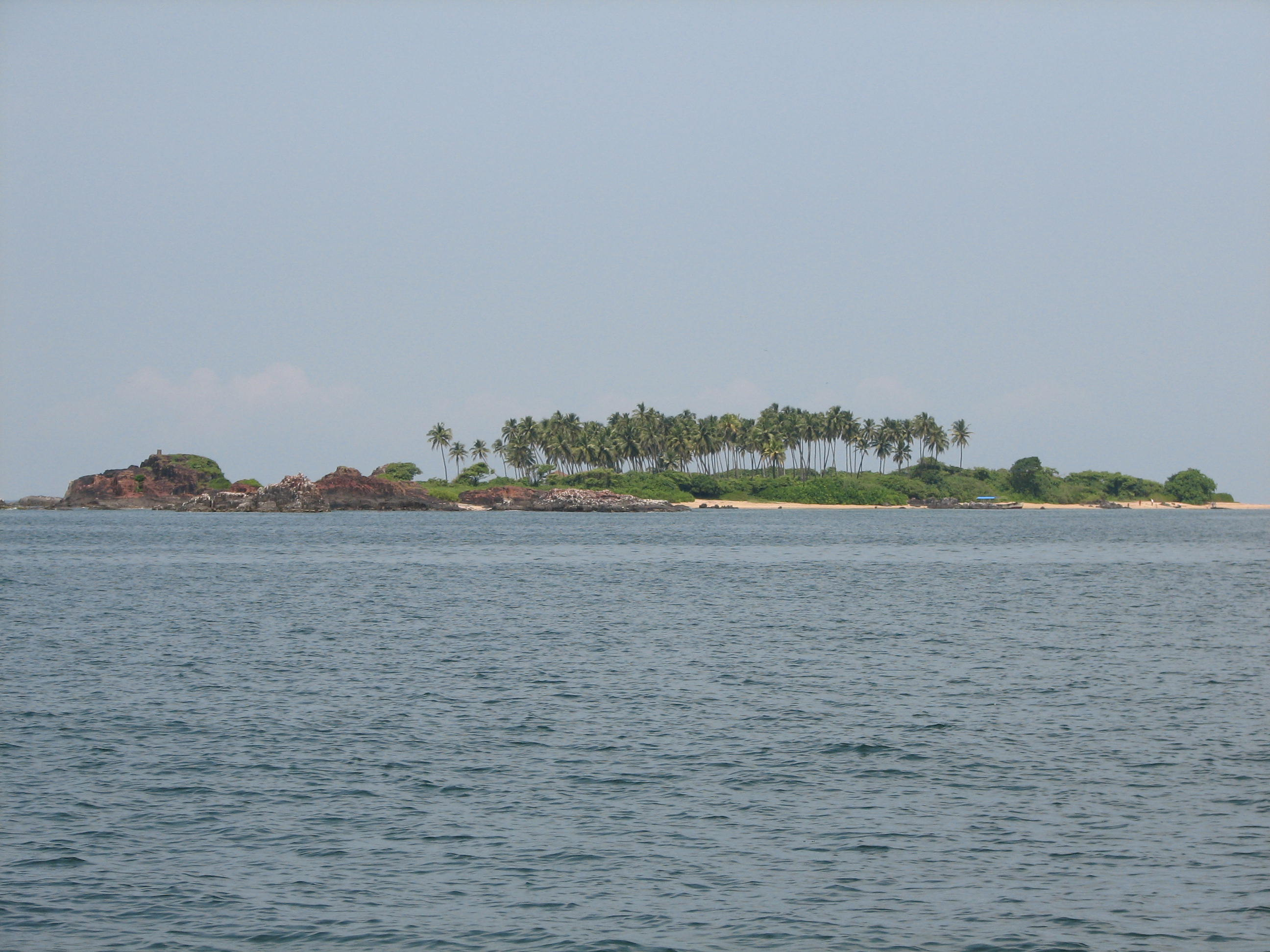 A view of St Mary's Island, Karnataka from Ferry